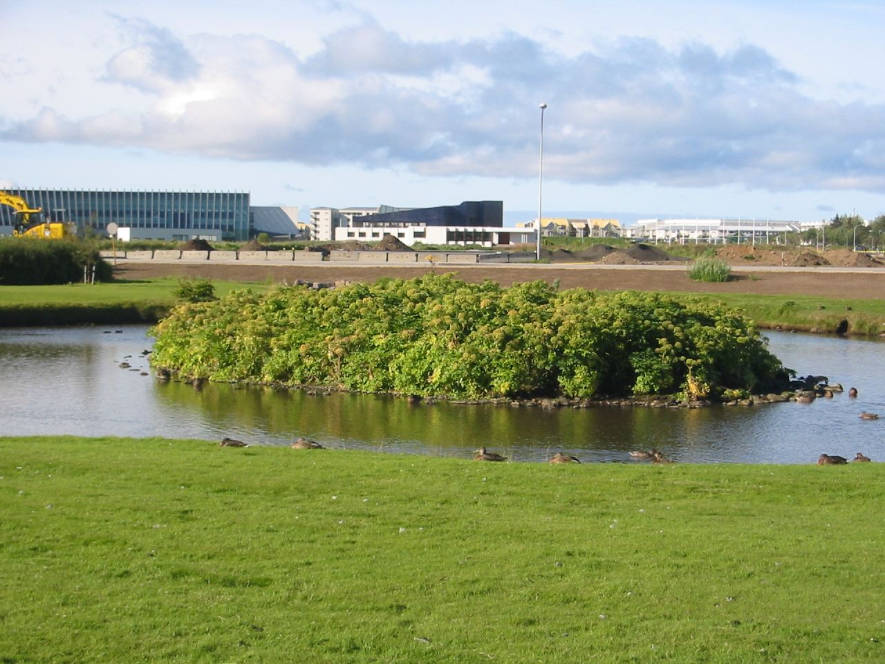 Hólmi í Tjörninni í Vatnsmýri. Askja and the Nordic Housel Usable with attribution and link to